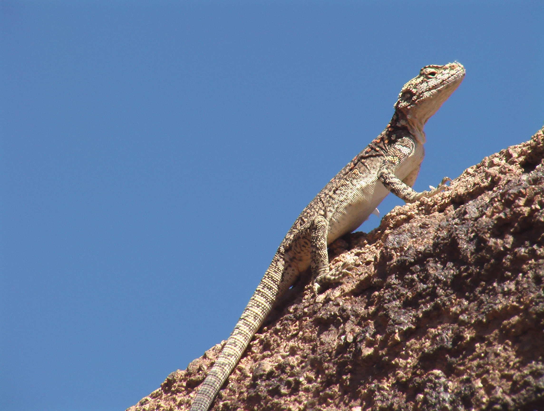 Laudakia stoliczkana, Eej Khairkhan Natural Monument, Tsogt sum, Govi-Altai province, North Gobi Desert, Mongolia in natural conditions